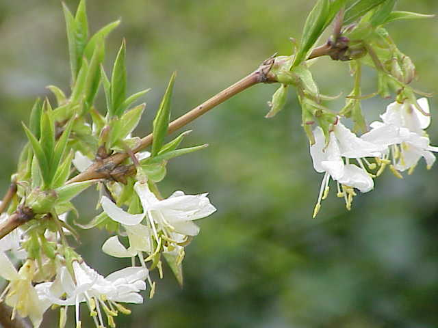 Species: Lonicera fragrantissima Family: Caprifoliaceae Image No. 1